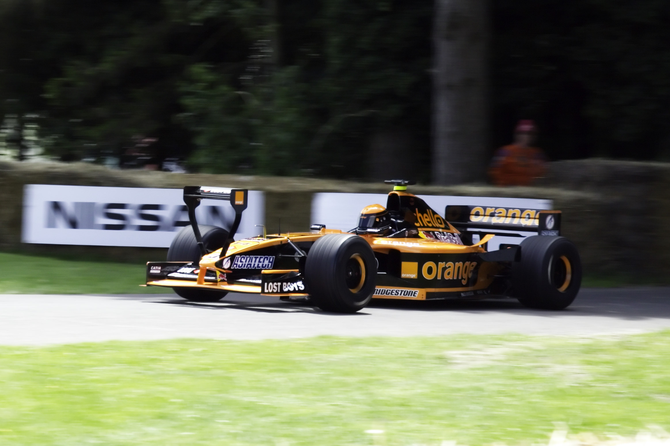 Arrows-Asiatech A22